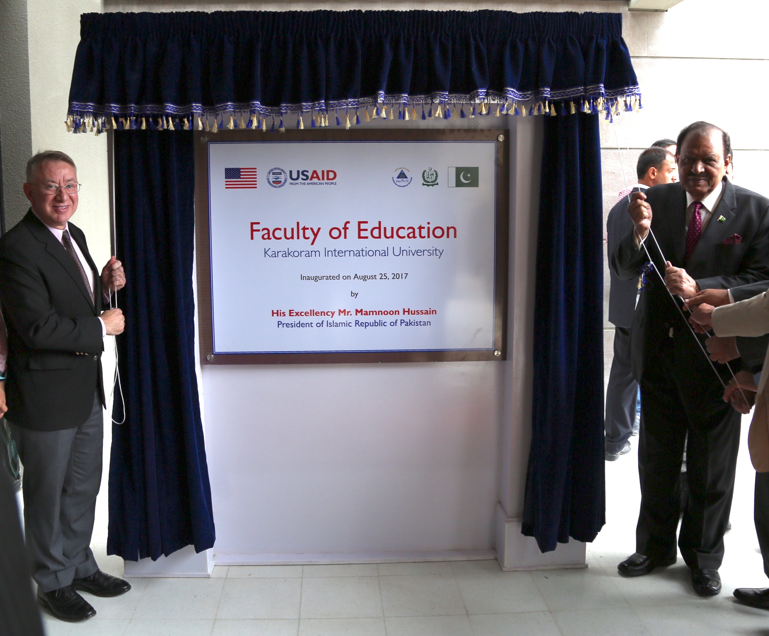 President of Pakistan Mamnoon Hussain joins USAID Mission Director Jerry Bisson to Inaugurates Faculty of Education at Karakoram International University, Gilgit